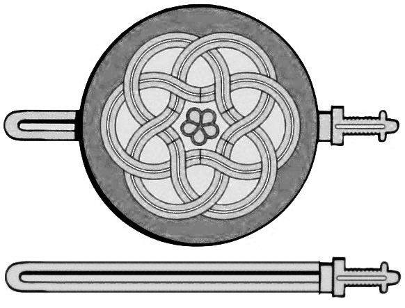 A reproduction of the sword and shield found on the Bab al-Nasr (Gate of Victory), Cairo Egypt, one of three remaining gates, the other two being Bab al Futuh (Conquest Gate) and Bab Zuwayla (Gate of Zuwayla).